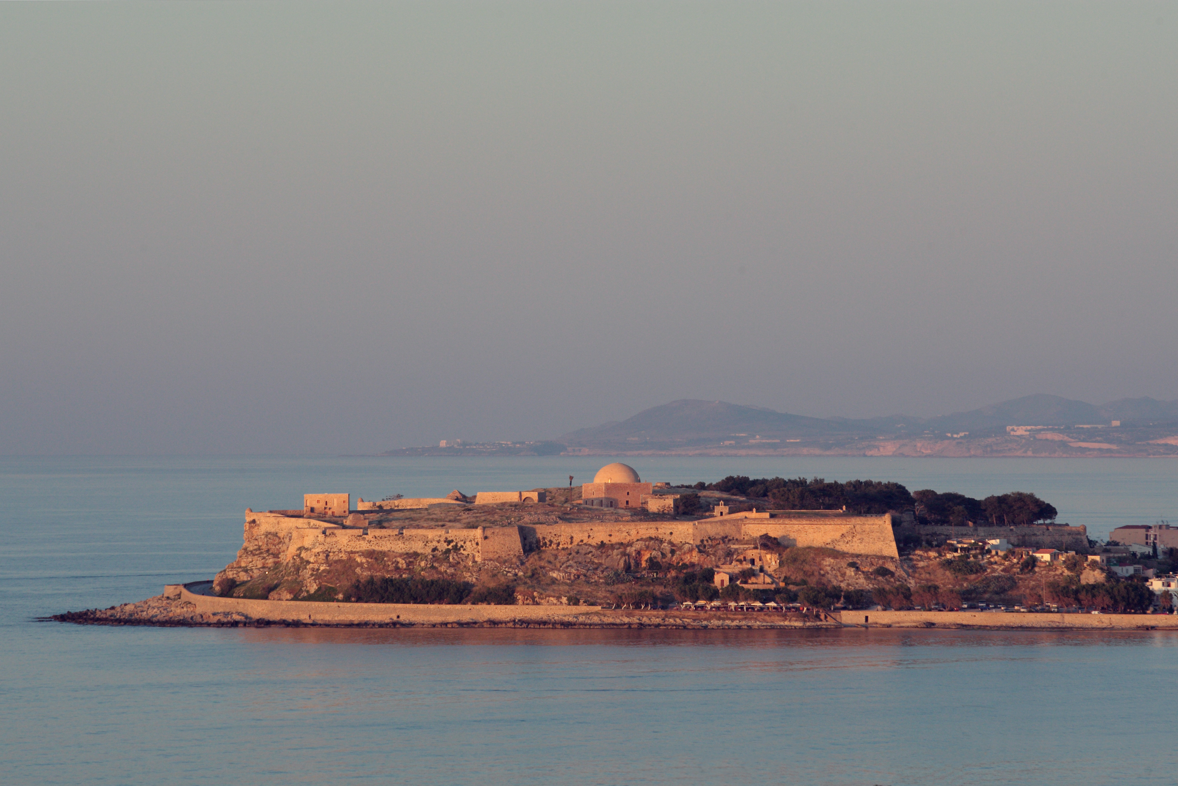 The Fortezza citadel of Rethymno